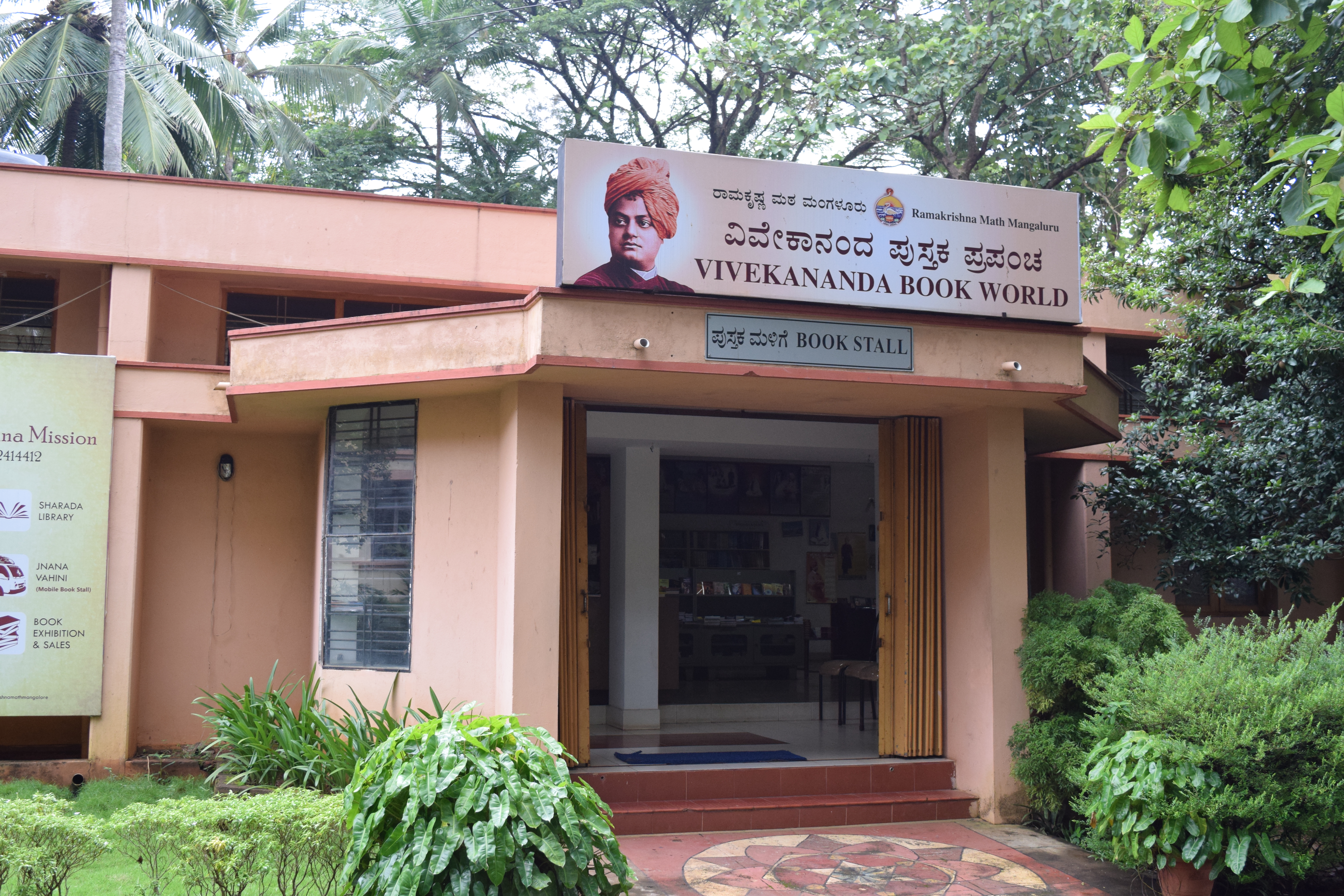 Ramakrishna ashram mangalore book stall